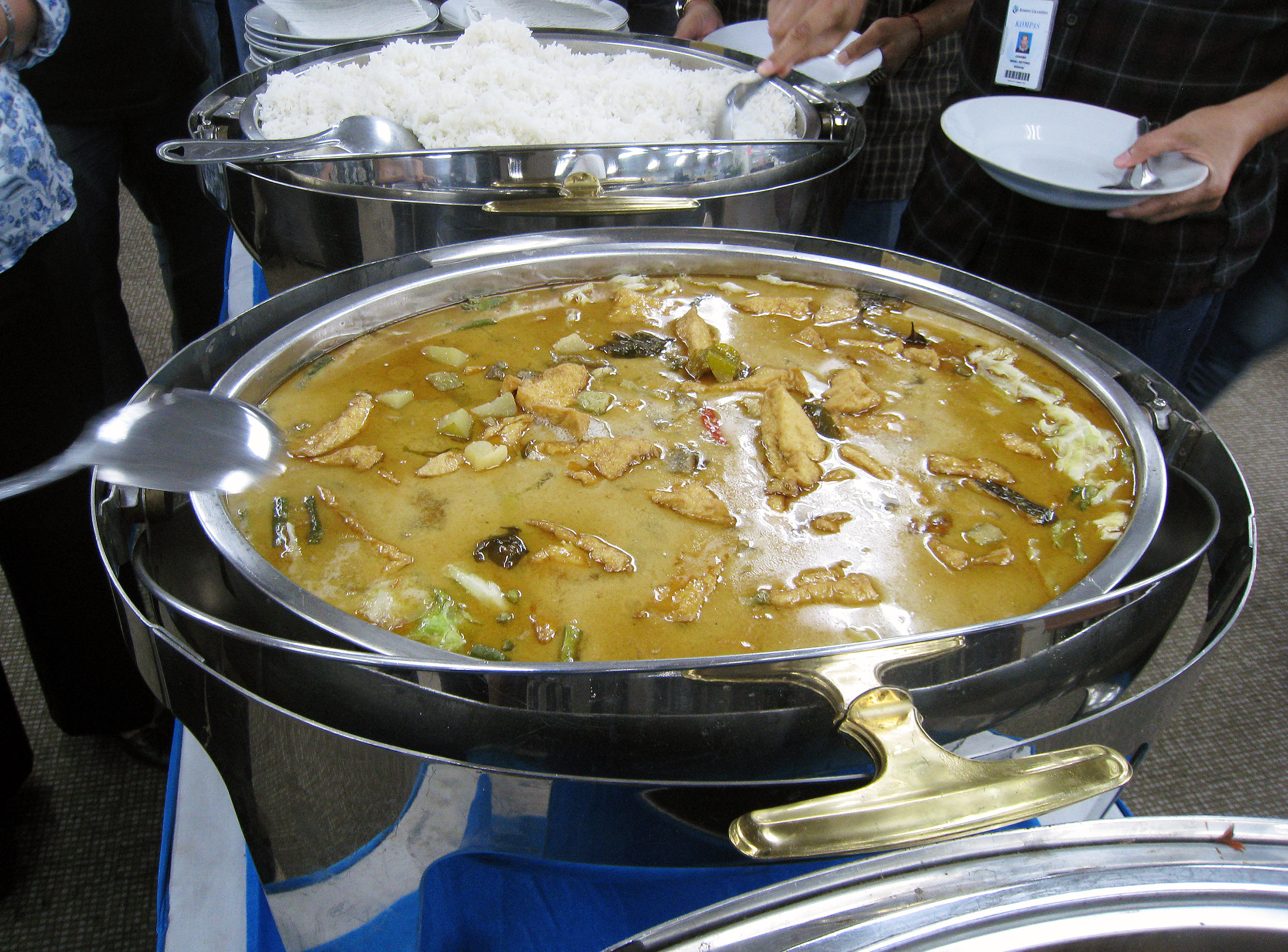 Sayur Lodeh Ibu Sulastri catering, served in a prasmanan (buffet) for breaking the fast during Ramadhan in Kompas Daily office, Palmerah Selatan, Jakarta, Indonesia. Sayur Lodeh is Javanese vegetables stew in coconut milk and spices, this version served with tofu.